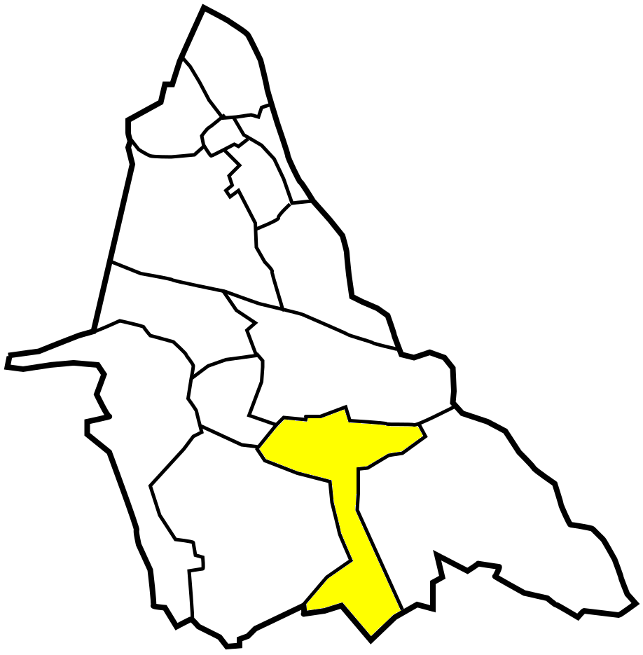 District of Mysłowice